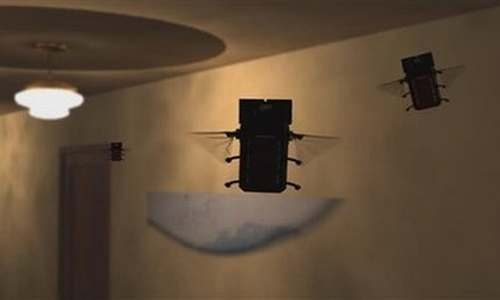 A micro air vehicle as proposed by the US Air Force, shown in a computer simulation. Text on origin website says: In this shot, taken from computer animation video Friday, Nov. 21, 2008, and released by the U.S. Air Force, shows the next generation of drones, called Micro Aerial Vehicles, or MAVs. The MAVs could be as tiny as bumblebees and capable of flying undetected into buildings, where they could photograph, record, and even attack insurgents and terrorists. U.S. military engineers are trying to design flying robots disguised as insects that could one day spy on enemies and conduct dangerous missions without risking lives.